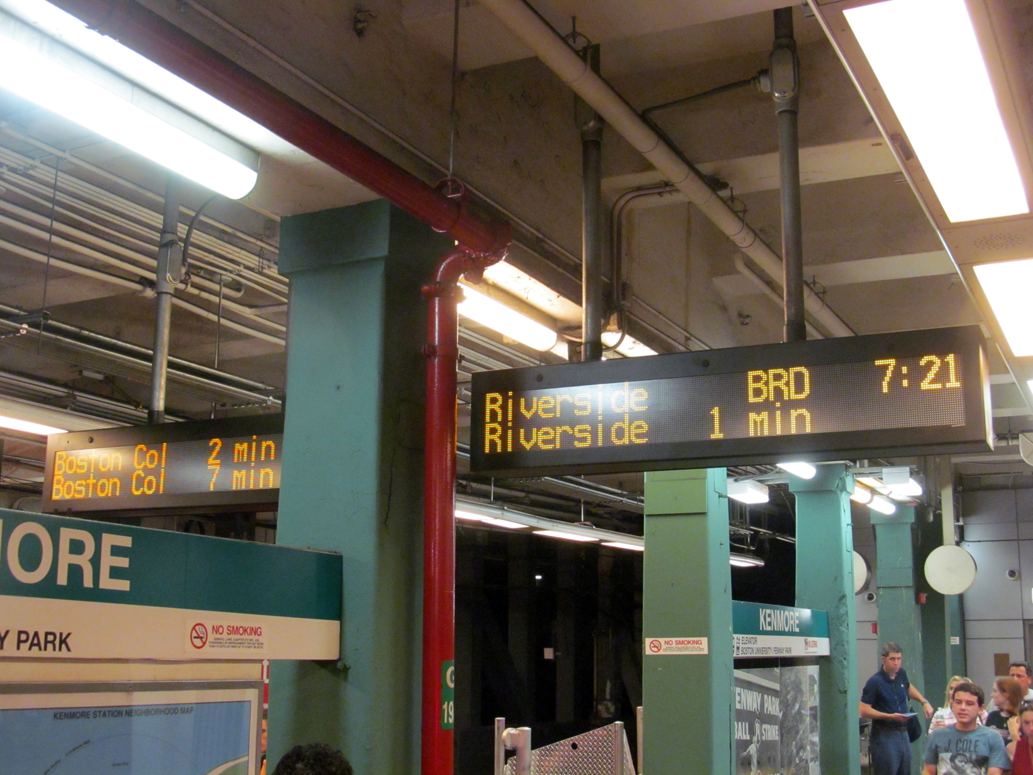 Countdown signs at Kenmore station displaying the times until the next outbound trains on the B, C, and D branches. This was the first activated countdown sign at a Green Line subway station.